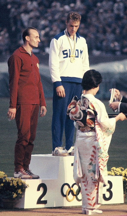 Gergely Kulcsár and Pauli Nevala at the 1964 Olympics